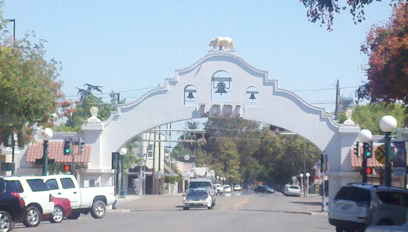 Lodi Arch View looking east (from downtown)